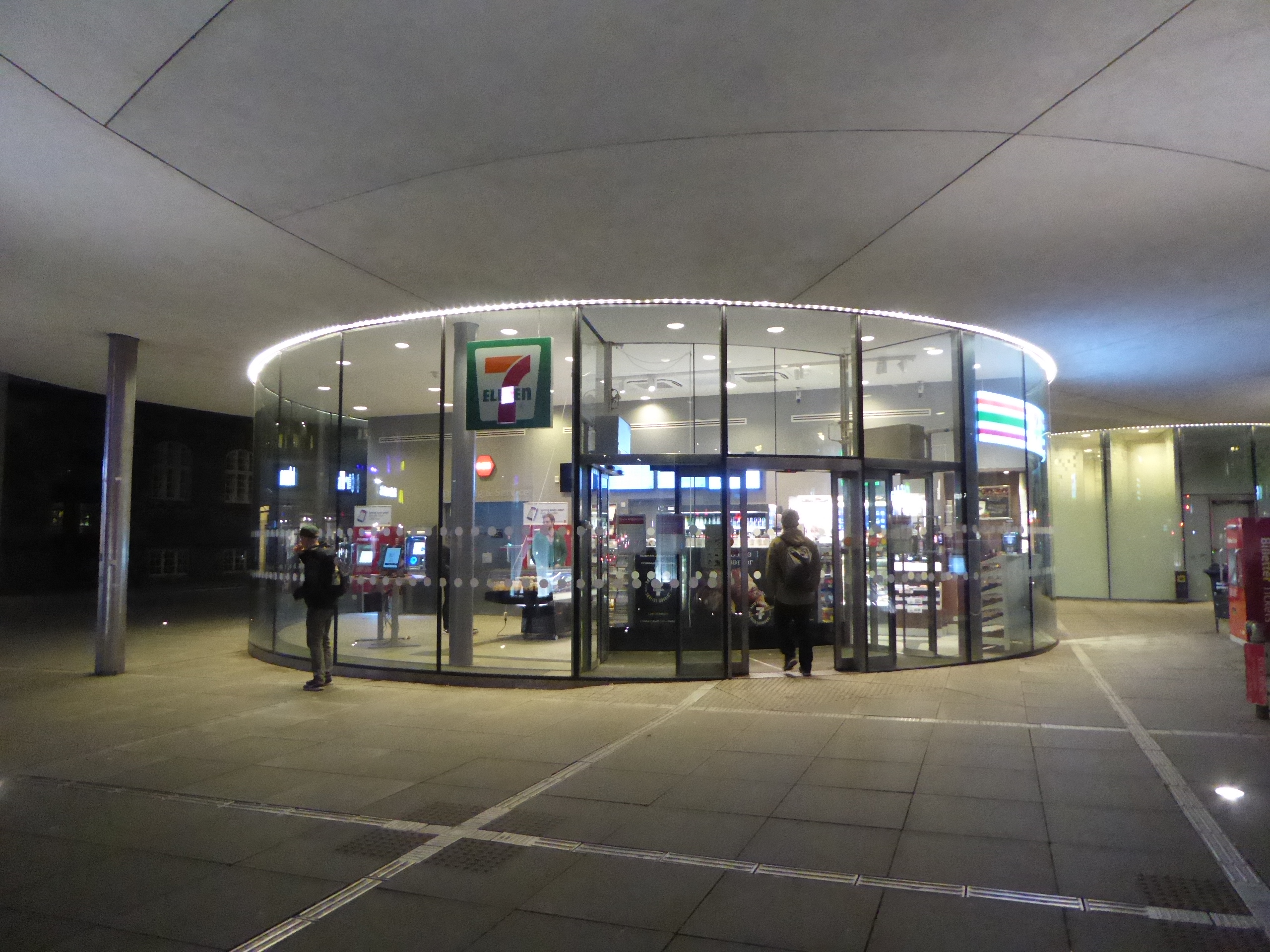 Nørreport Station in Indre By in Copenhagen at night.